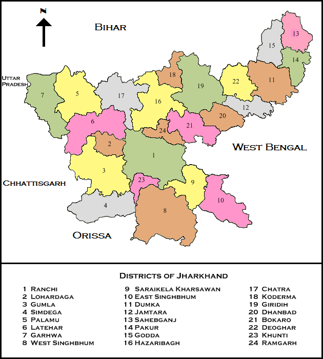 A map of Jharkhand state, showing its 24 districts